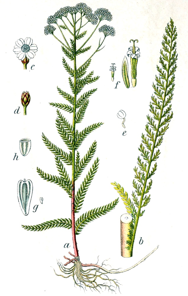 Achillea millefolium L. Original Description Schafgarbe, Achillea millefolium